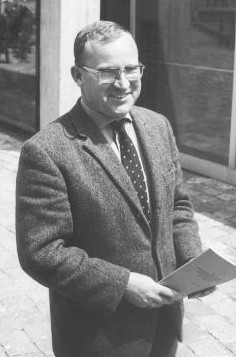 Mathematician Konrad Königsberger